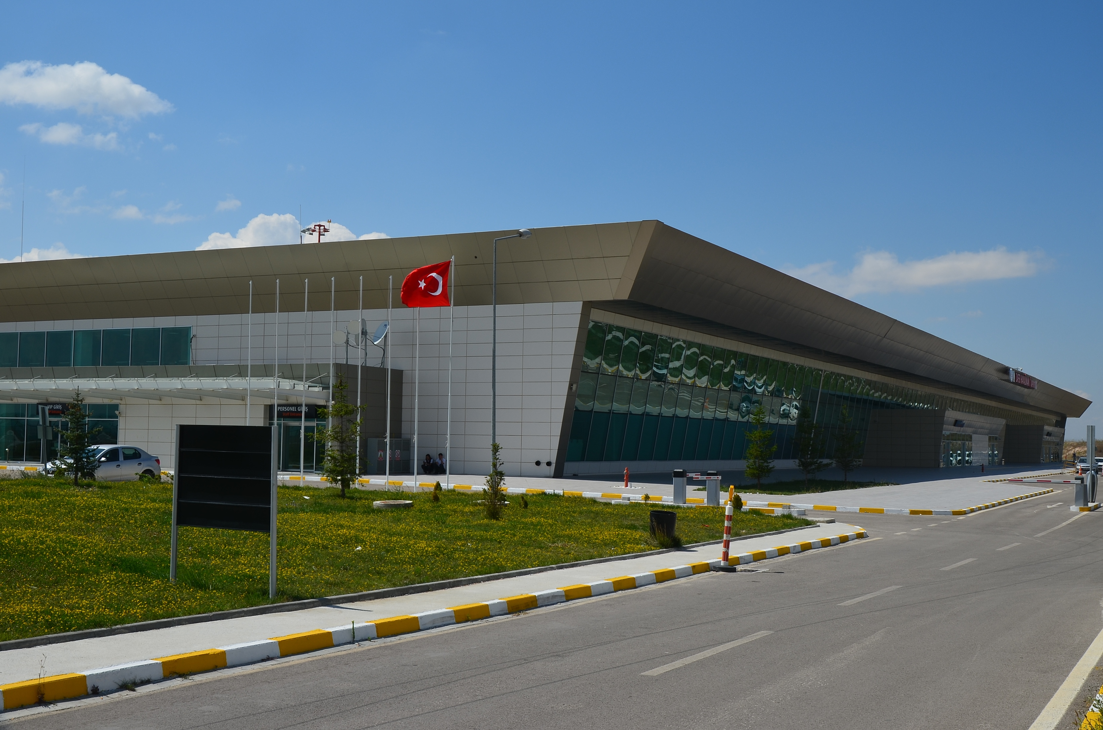 Terminal building of Zafer Airport in Kütahya, Turkey